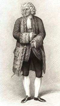 George_Frederick_Cook - the actor - By_Richard_Woodman after Samuel de Wilde - cropped and autobalanced